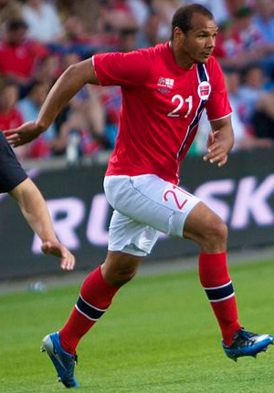 Daniel Braaten of Norway in May 2012 friendly against England in Oslo.